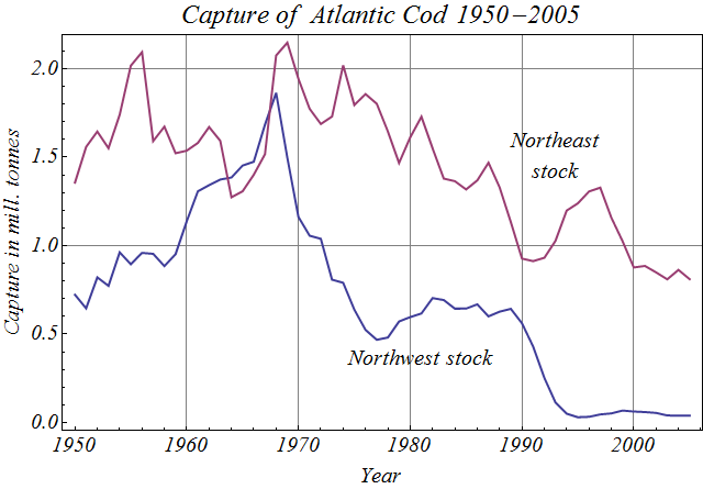 Data source: FAO Fishery Statistics programme (FIGIS Online), Atlantic cod capture 1950-2005